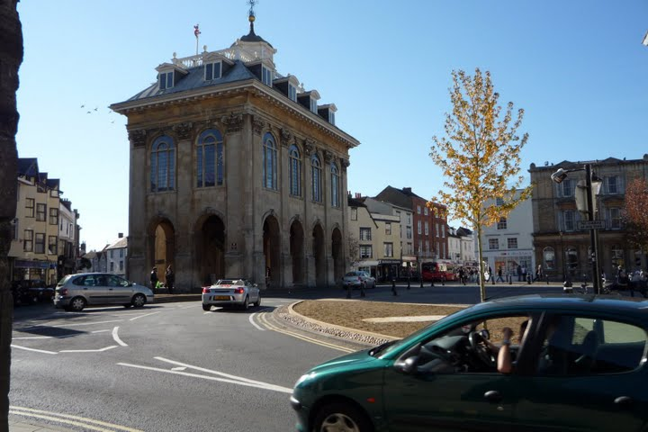 Abingdon, oxfordshire